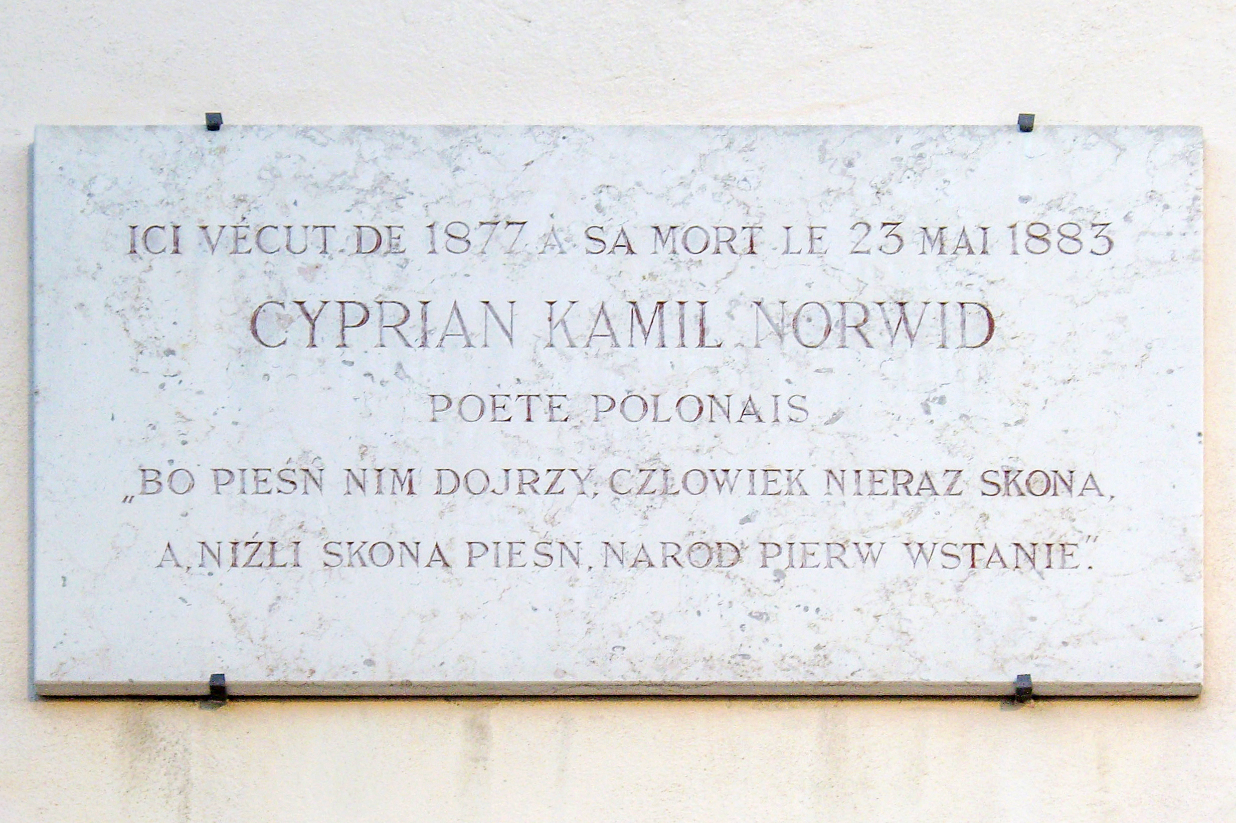 Commemorative plaque on the façade of the Œuvre de Saint-Casimir, 119 rue du Chevaleret, Paris 13th, where the Polish poet Cyprian Kamil Norwid spent the last years of his life from 1877 to 1883. The last two lines in Polish are the closing lines of Norwid's poem Do obywatela Johna Browna (To citizen John Brown) dated November 1859.